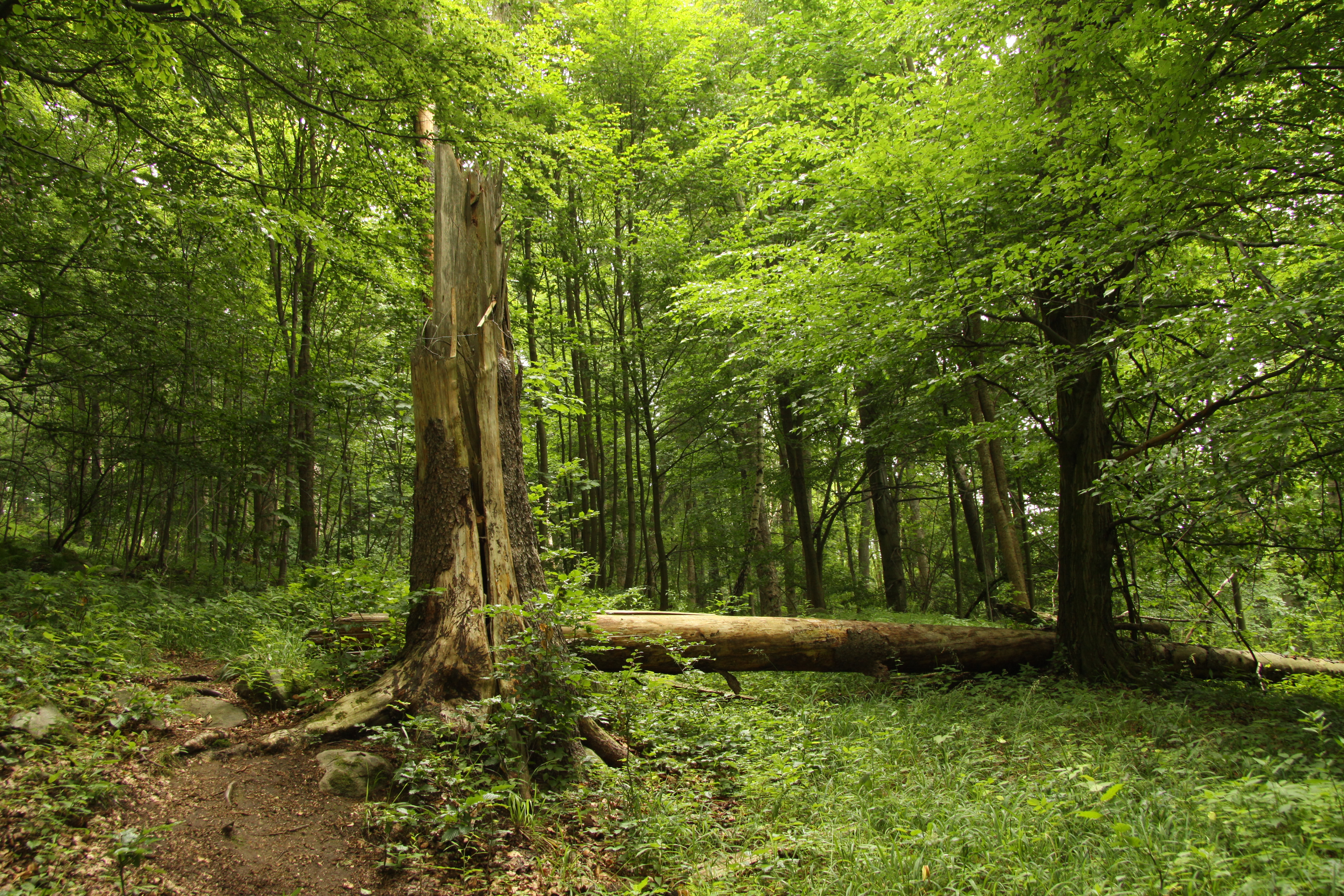 Nature reserve Žižkův vrch in Mariánské Lázně in Cheb District, Czech Republic - Google Maps - Google Earth